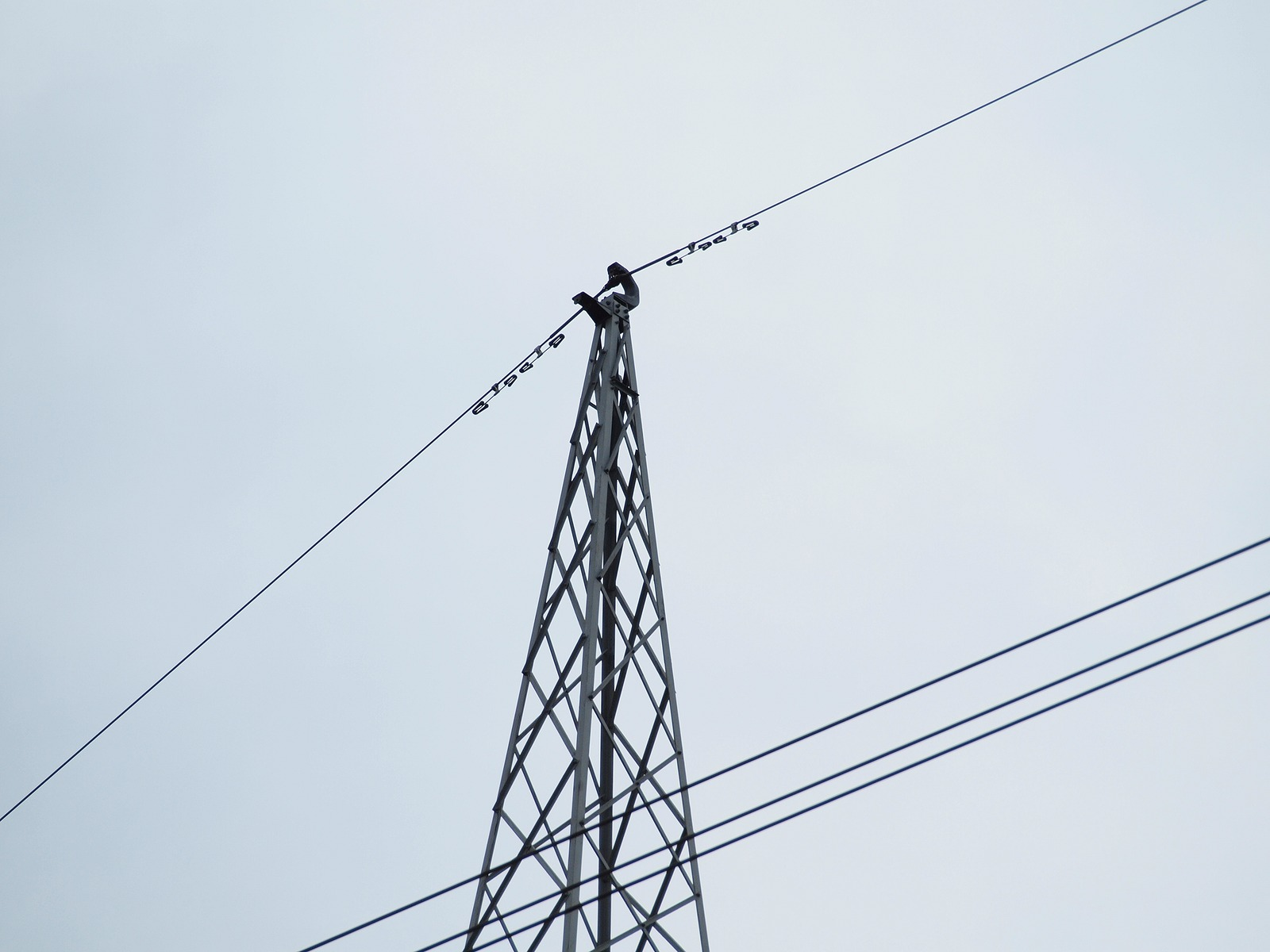 Earthing conductor on top of a power line